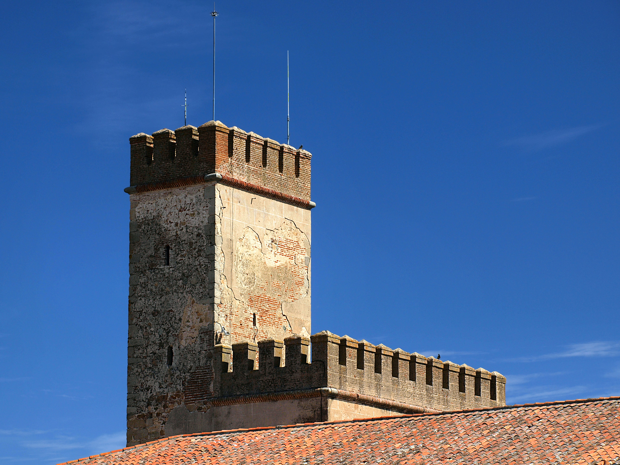 Badajoz Alcazaba, Santa María Tower